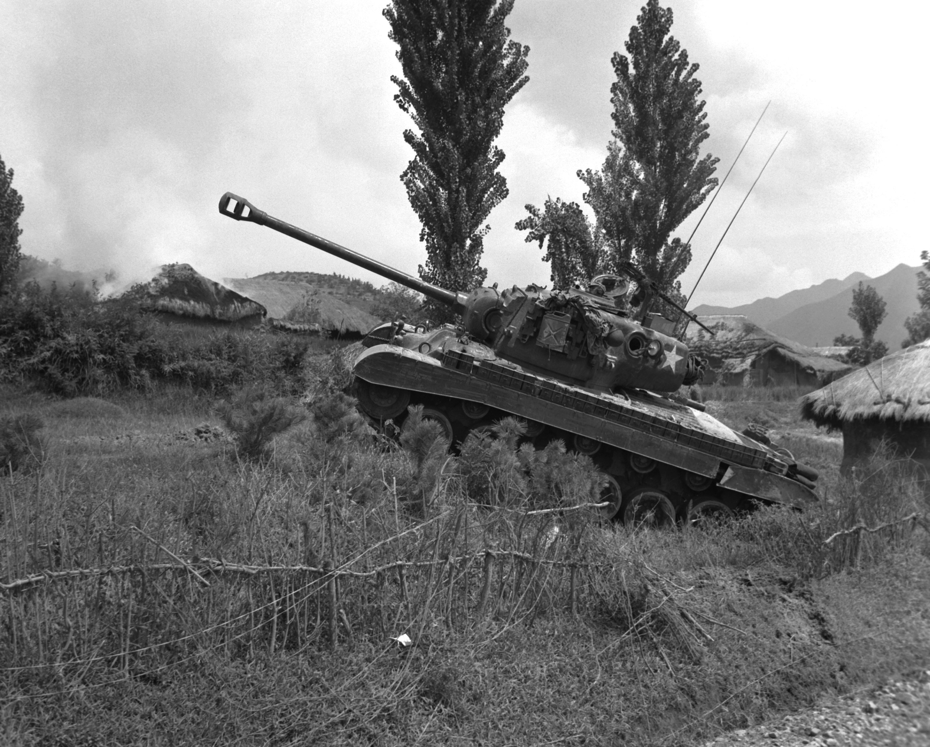 Operation / Series: KOREAN WAR Marine's Pershing tanks scramble around the edge of burning Korean village lately occupied by Communists to get at an enemy tank delaying our advance. NARA FILE# : 127-GK-234A-A2241